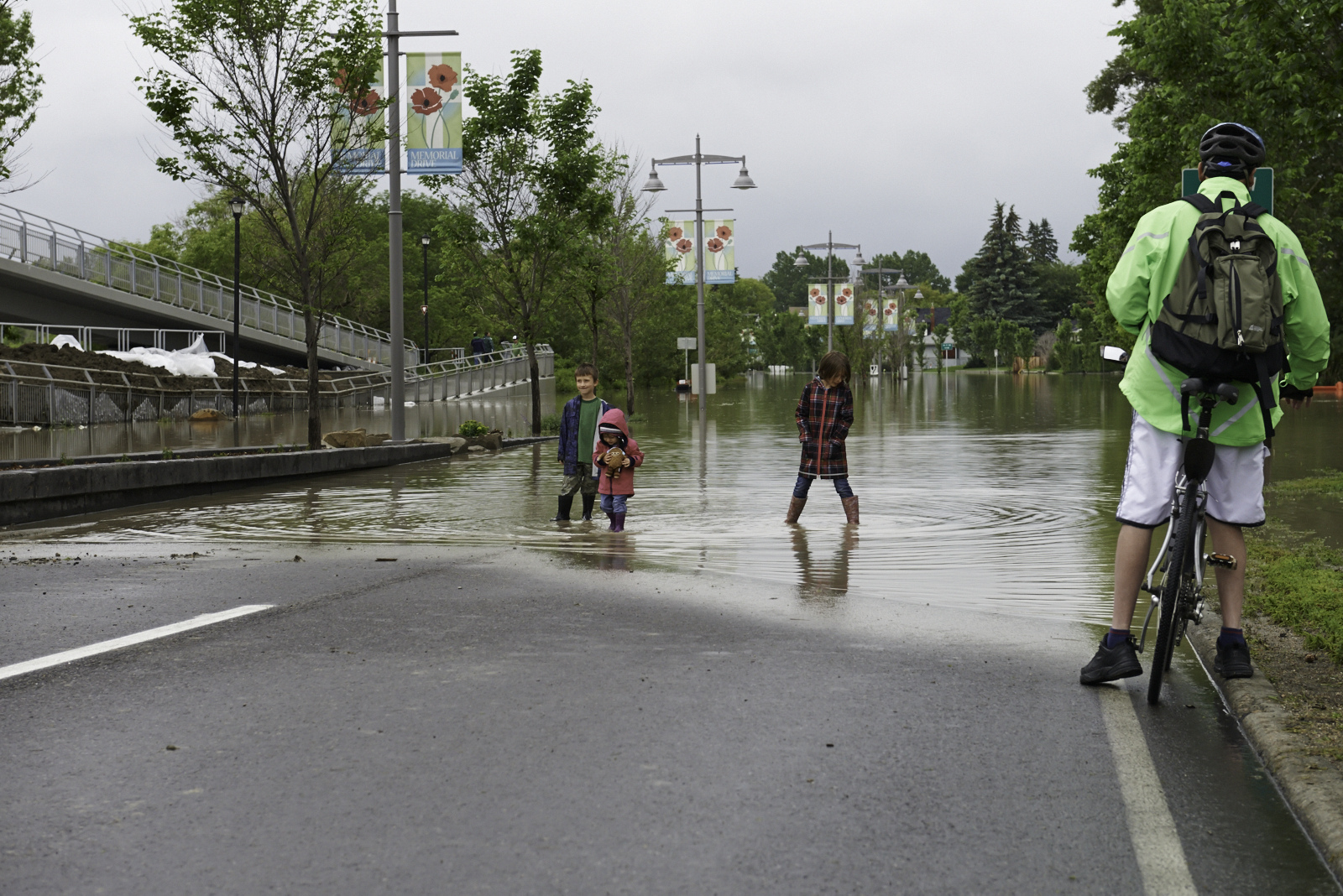 Advancing flood waters in Calgary, Alberta, Canada.